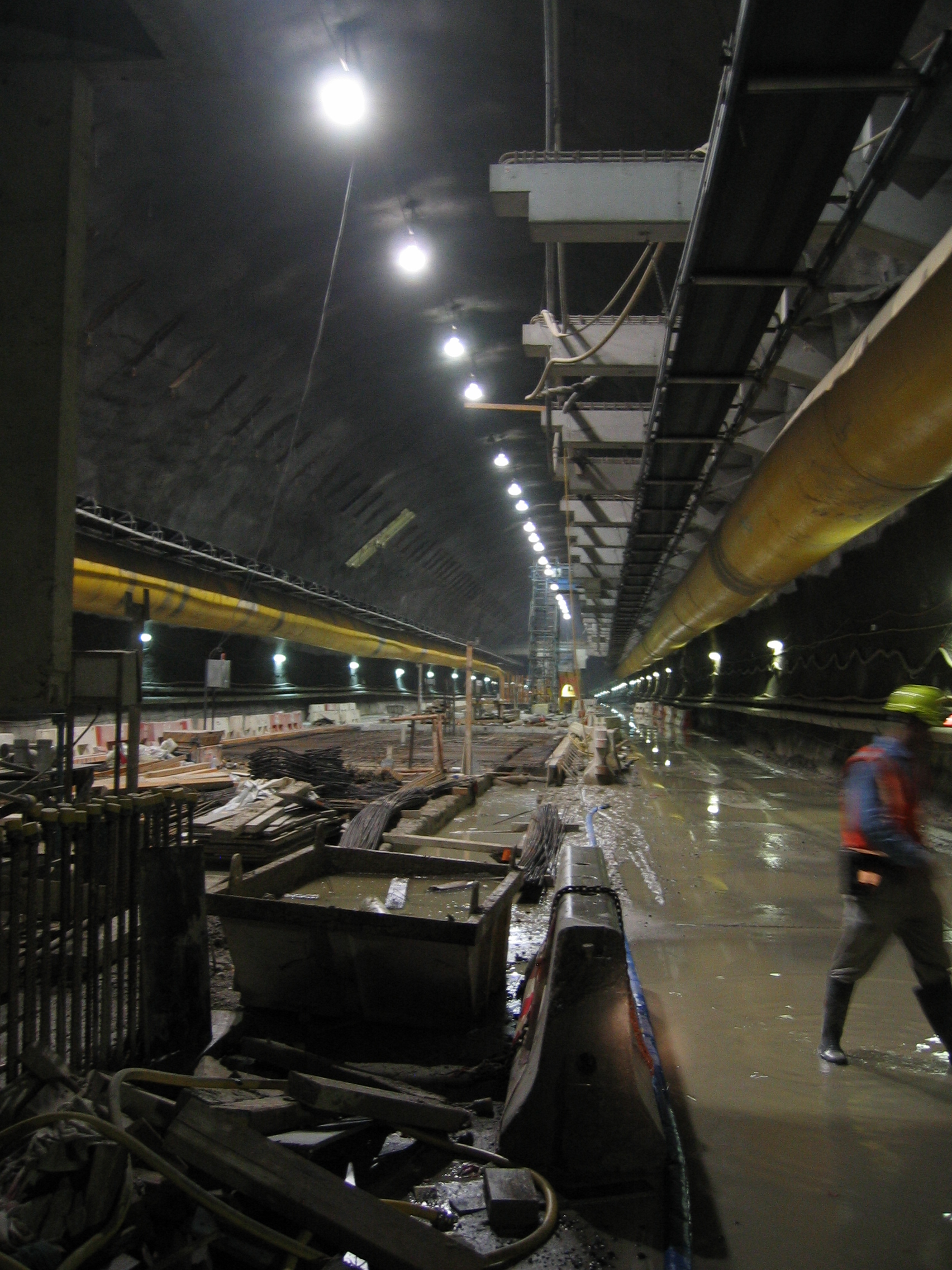 Inside the cavity that will become North Ryde Station on the Epping to Chatswood rail line.